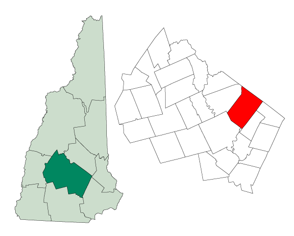 Map of a municipality in Merrimack County, New Hampshire